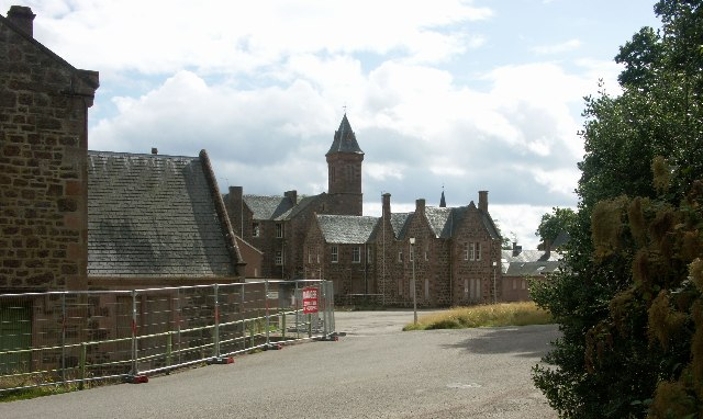 Craig Dunain Hospital. Old mental hospital that now seems to being demolished.